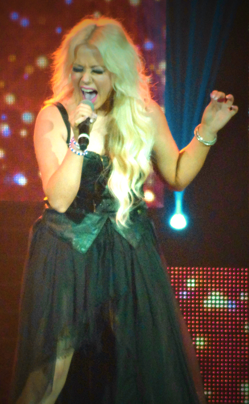 Amelia Lily perofrming on the X Factor Tour 2012.